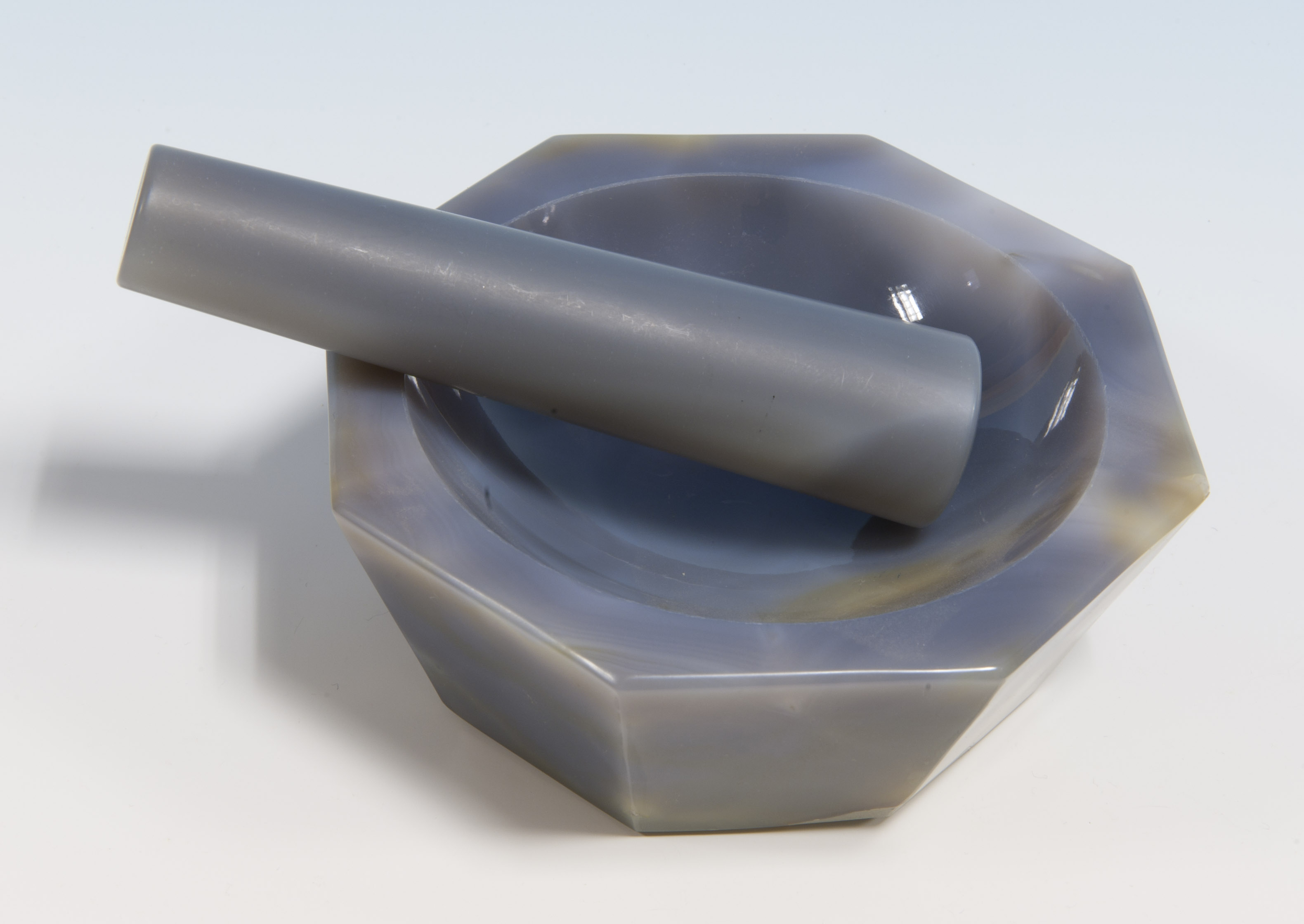 Mortar out of agate, used in laboratories